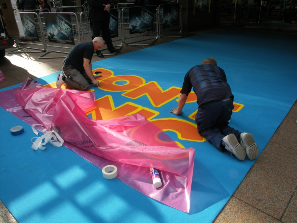 Preparations for the premiere of Hitchhiker's Guide to the Galaxy on Leicester Square. Photo taken on 20 April by Robert Broadie.